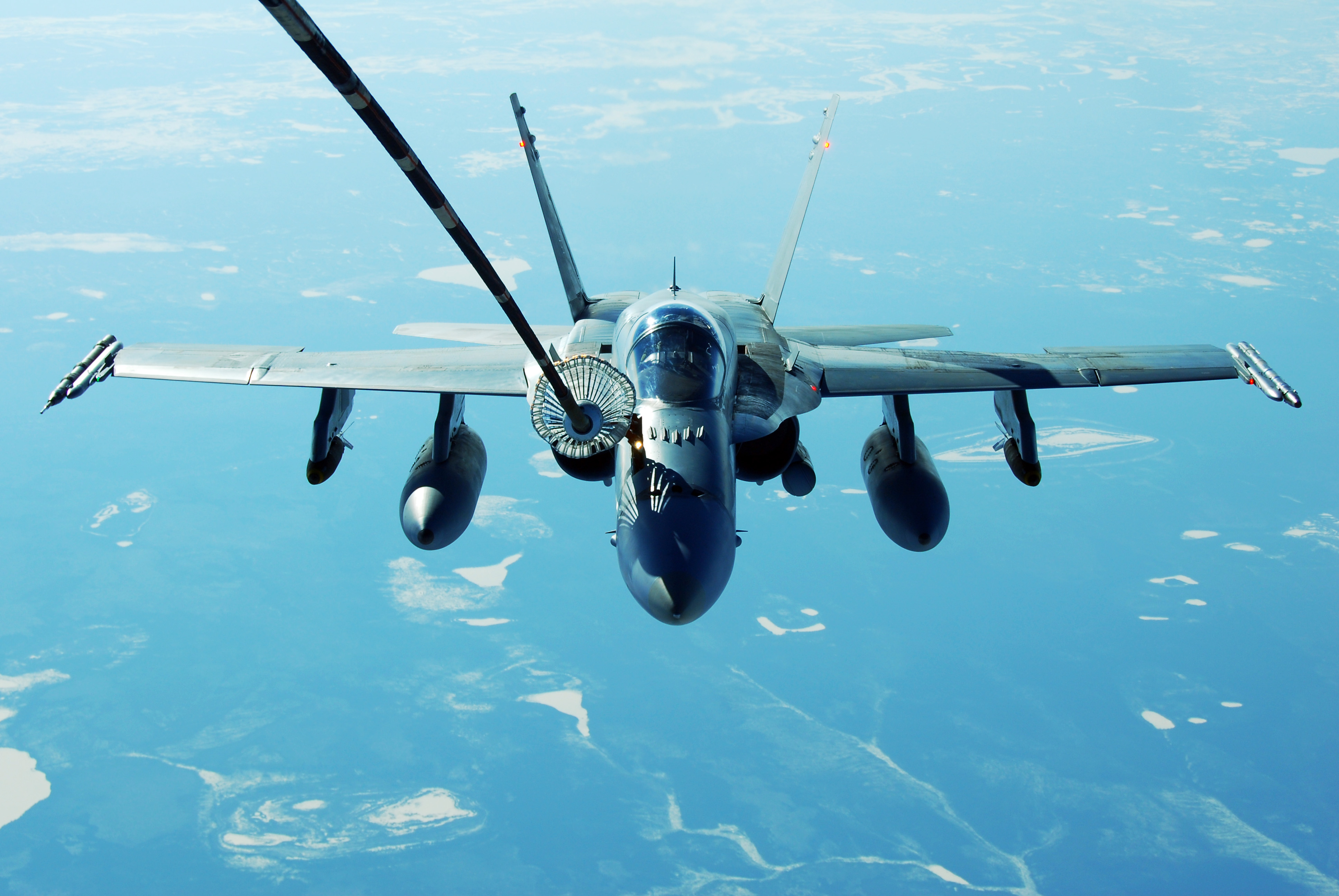 A Royal Australian Air Force F/A-18 Hornet refuels using behind a KC-10 Extender while at 26,000 feet April 17, 2008, at Eielson Air Force Base, Alaska. RED FLAG-Alaska 08-2 is a series of Pacific Air Forces field training exercises for U.S Forces and allies that provides joint offensive counter-air, indirection, close air support, and large force employment training in a simulated combat environment.